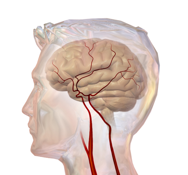 Illustration of the cerebrovascular system